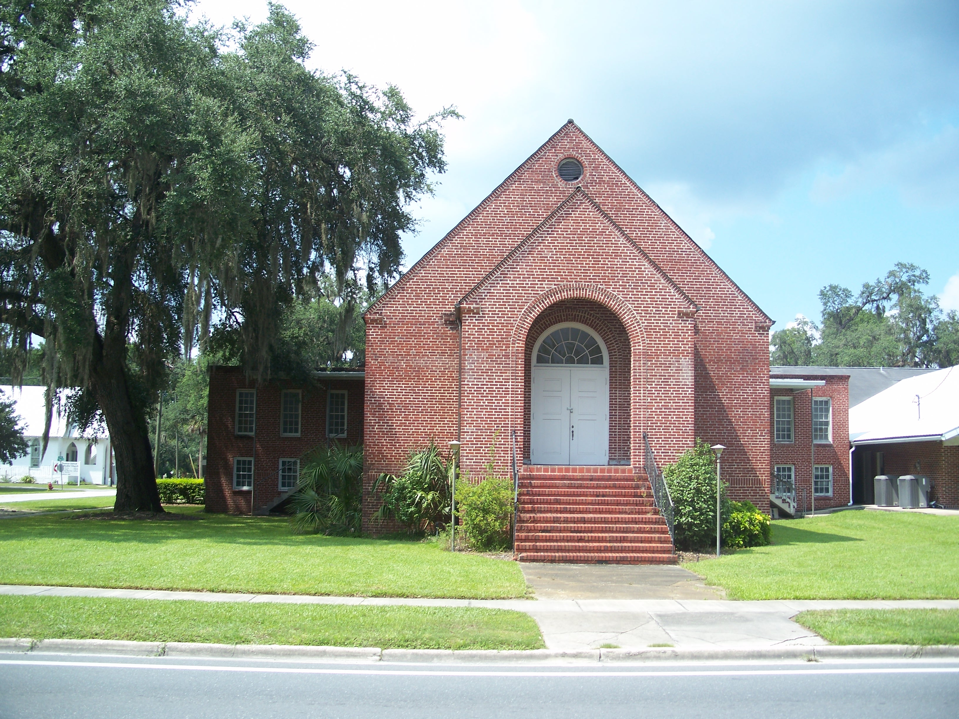 Trenton, Florida: First Baptist Church